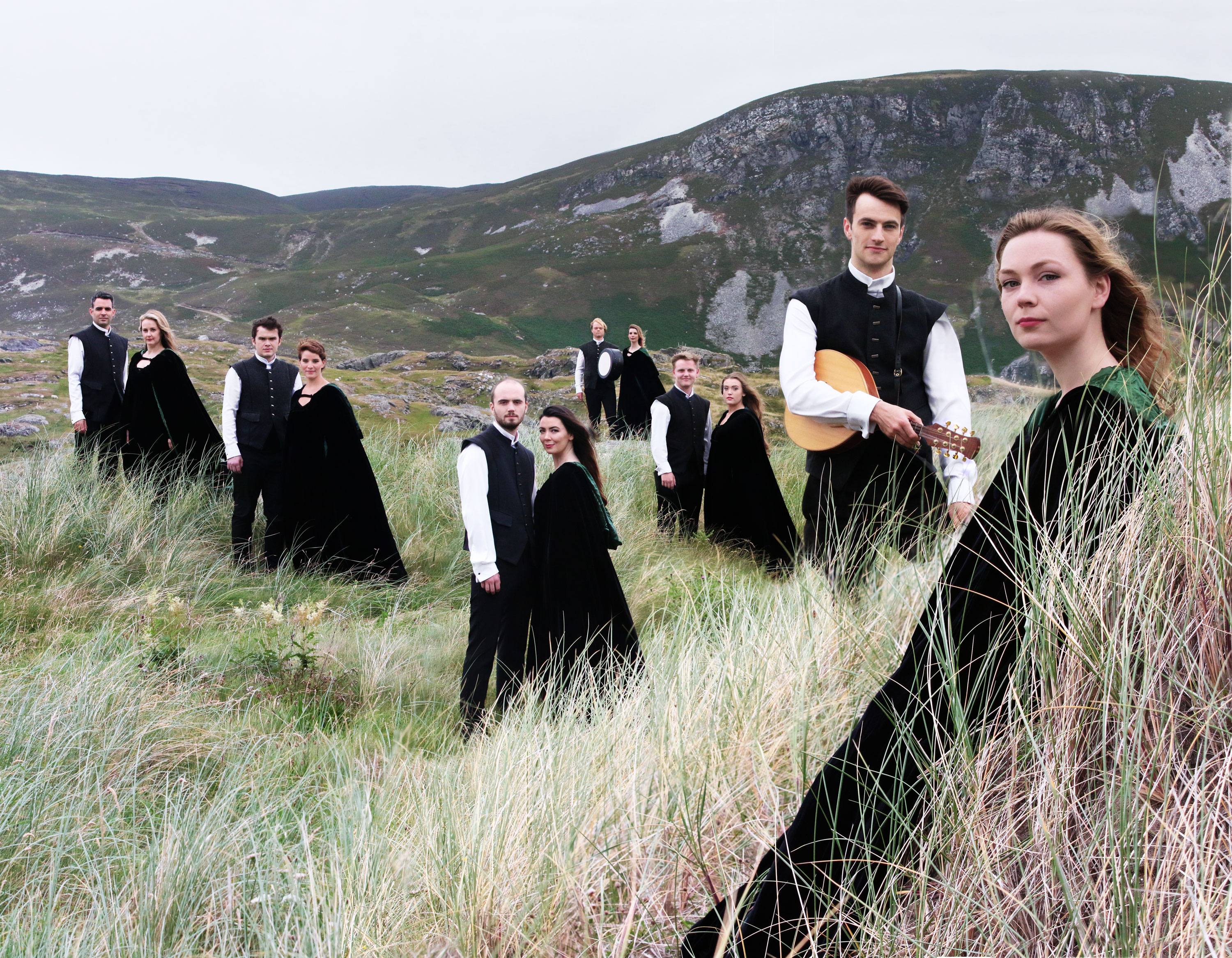 the Irish-based choral ensemble ANÚNA